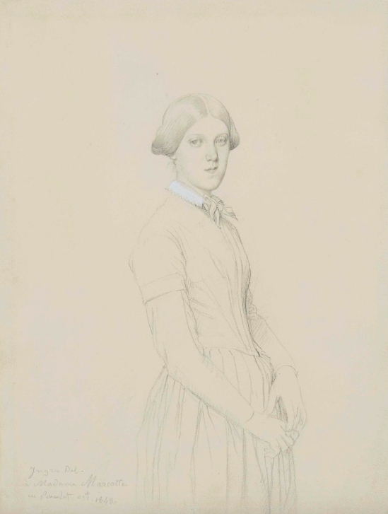 Madame Hubert Rohault de Fleury, née Louise Marcotte